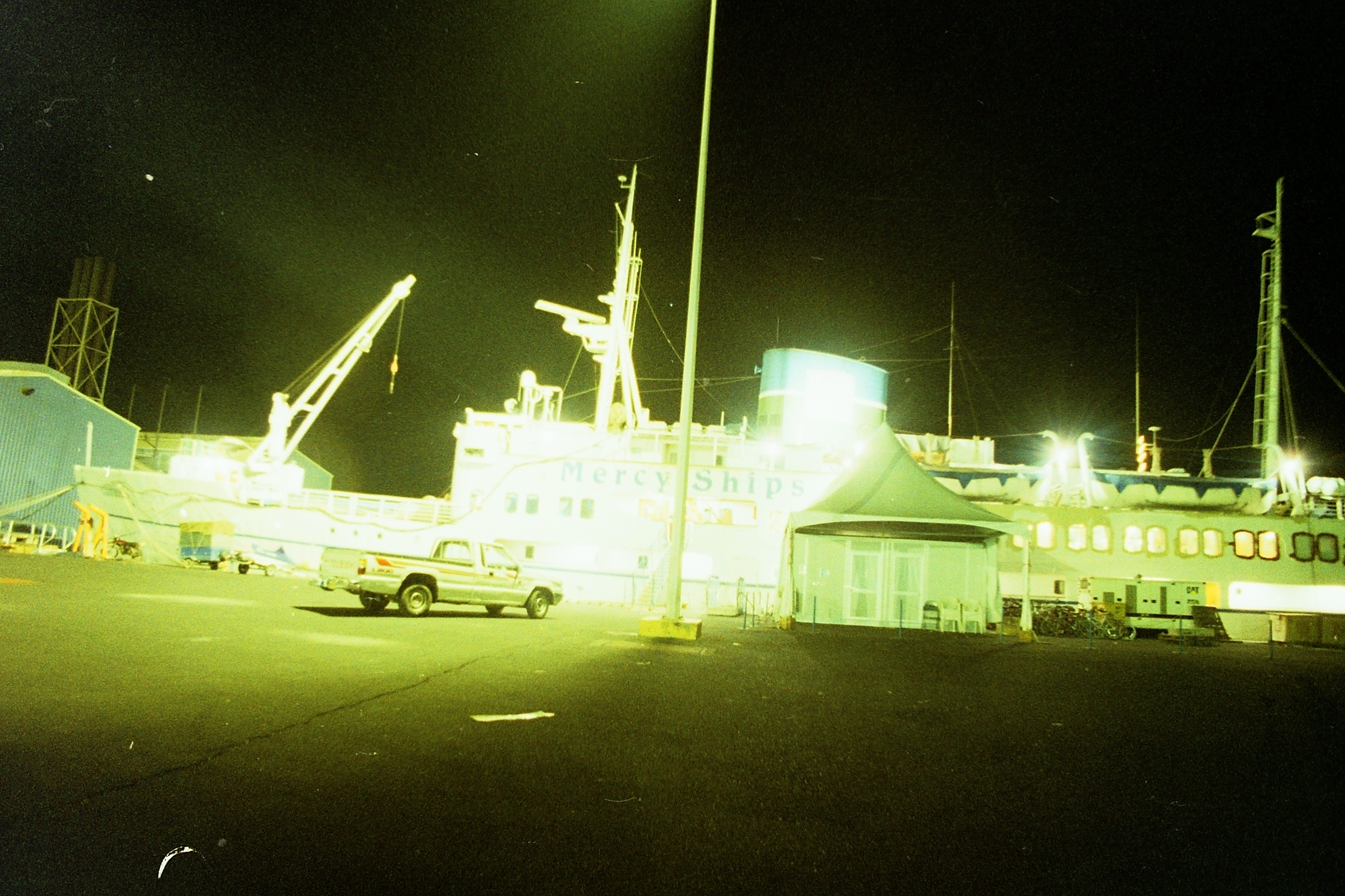 Caribbean Mercy docked in Guatemala